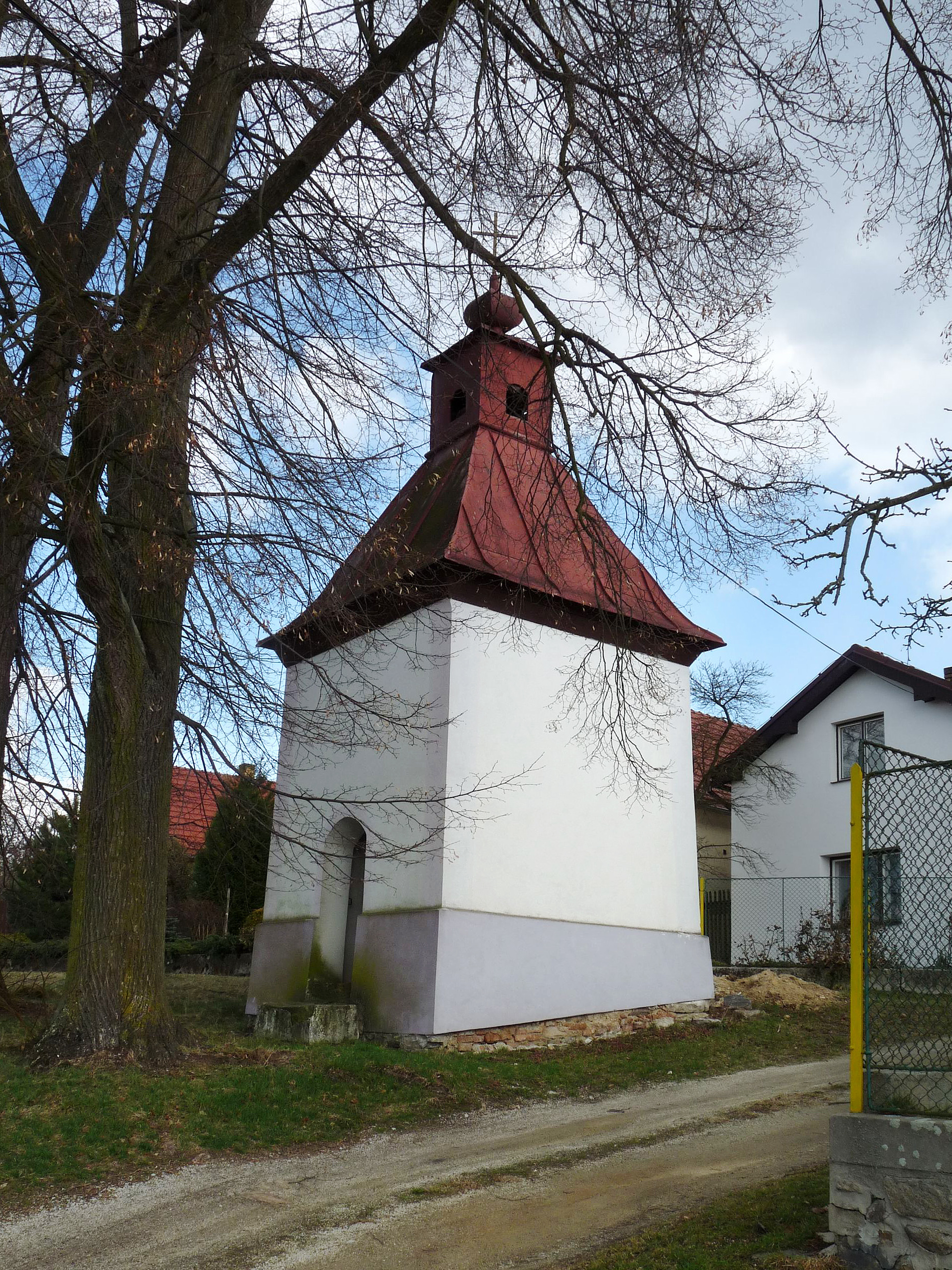 Chapel in the village of Mostečný, Jindřichův Hradec District, Czech Republic.